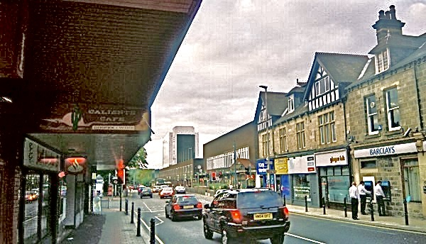 A picture of the centre of Headingley, Leeds. September 2007.